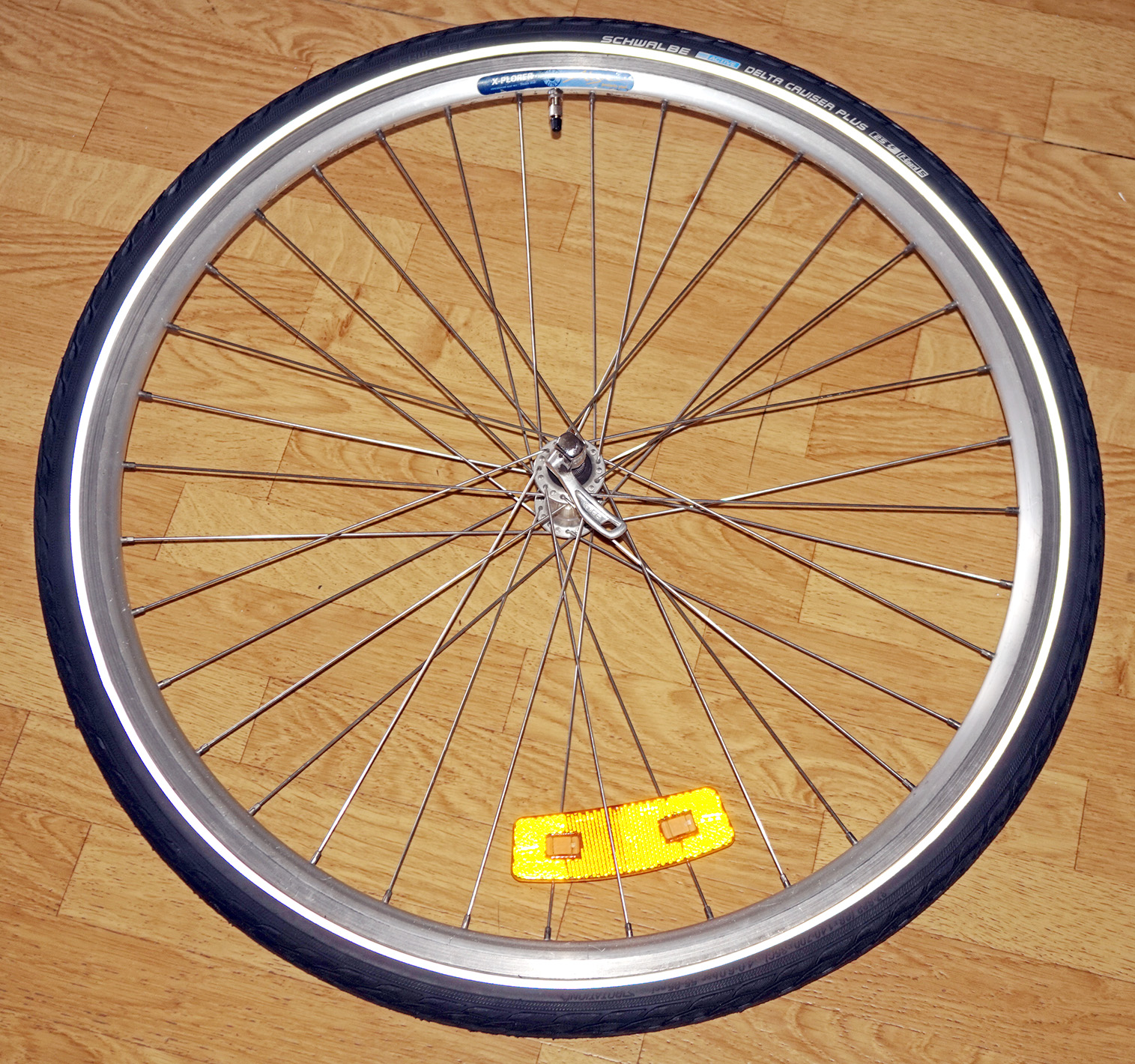 X-plorer cycle wheel.